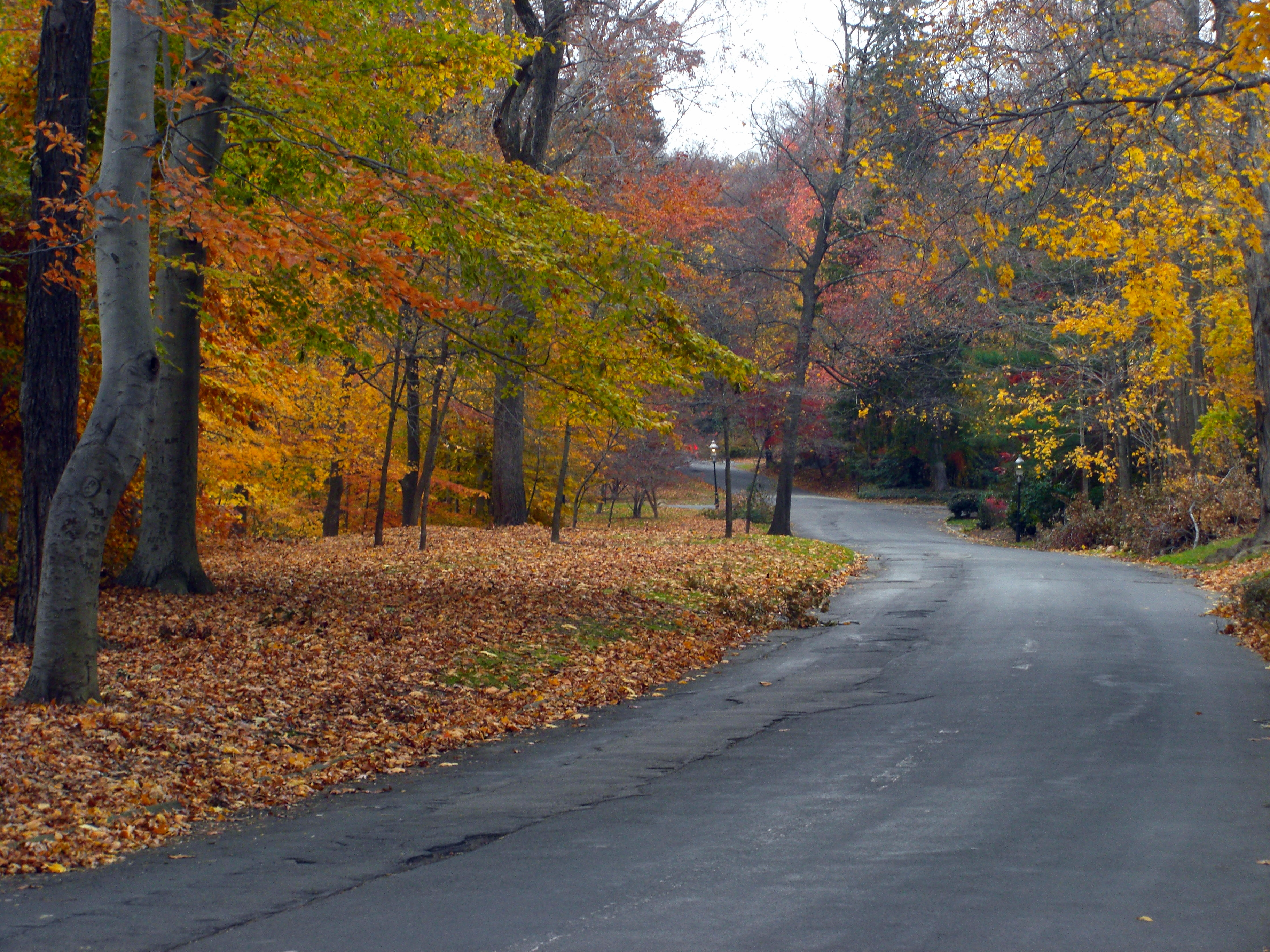 Llewellyn Park Historic District